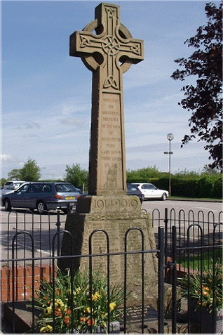 Original photograph taken by John Haynes, May 2006, of the First World War Memorial at St. Martins)